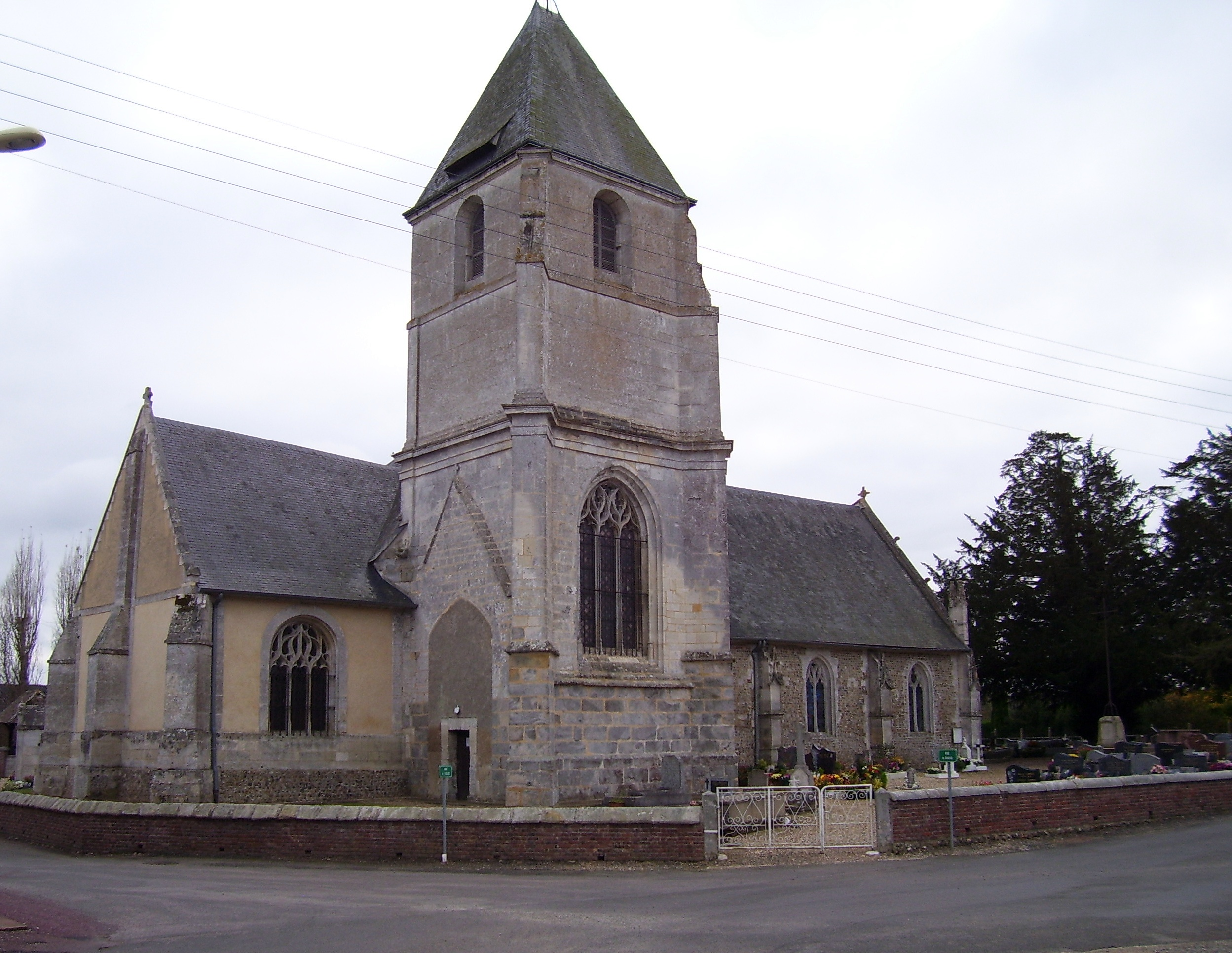 The church Saint-Sulpice in Plasnes (Eure, Haute-Normandie) in France.